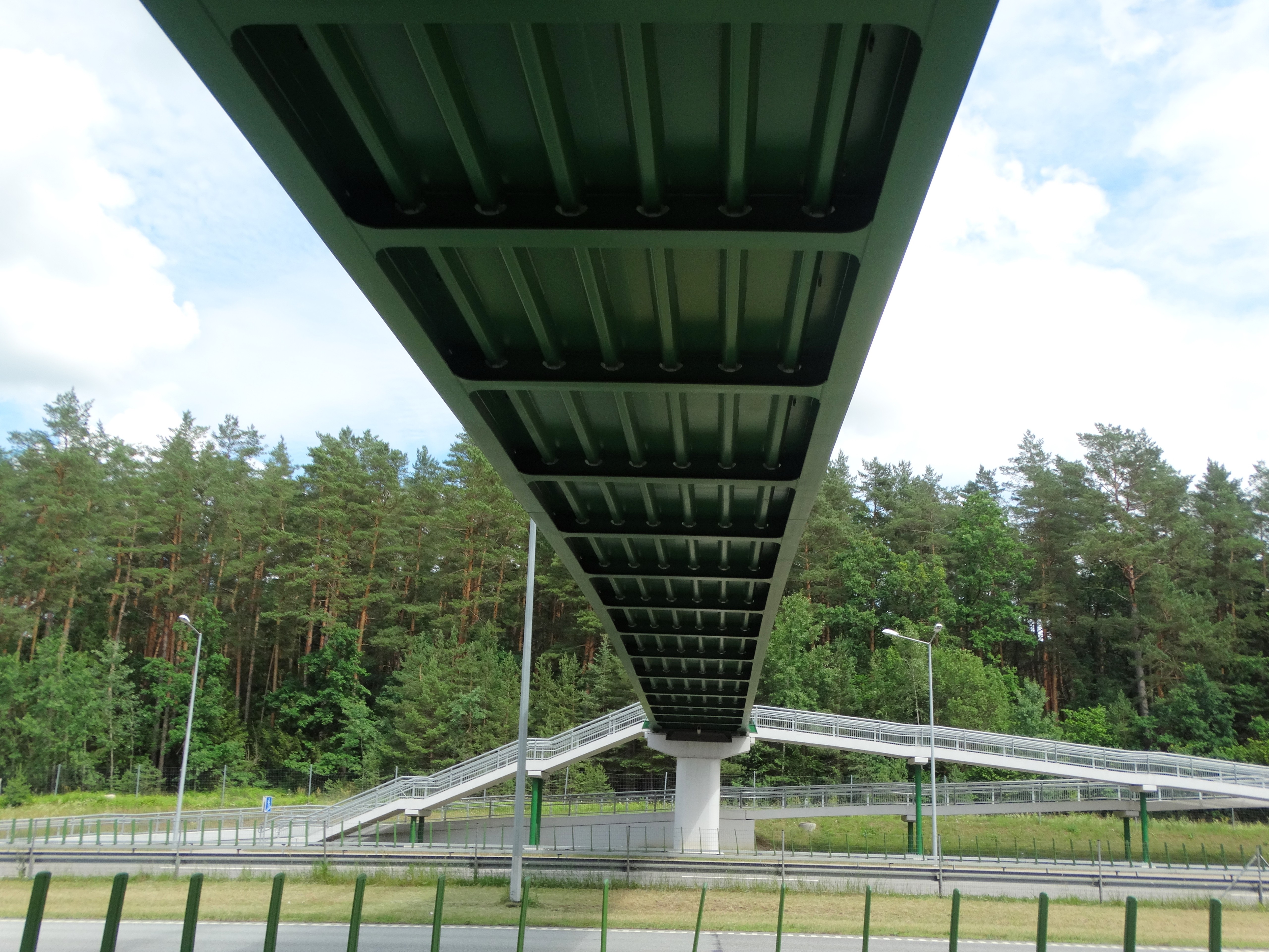 Pedestrian overpass on the A2 highway near Ukmergė, Lithuania